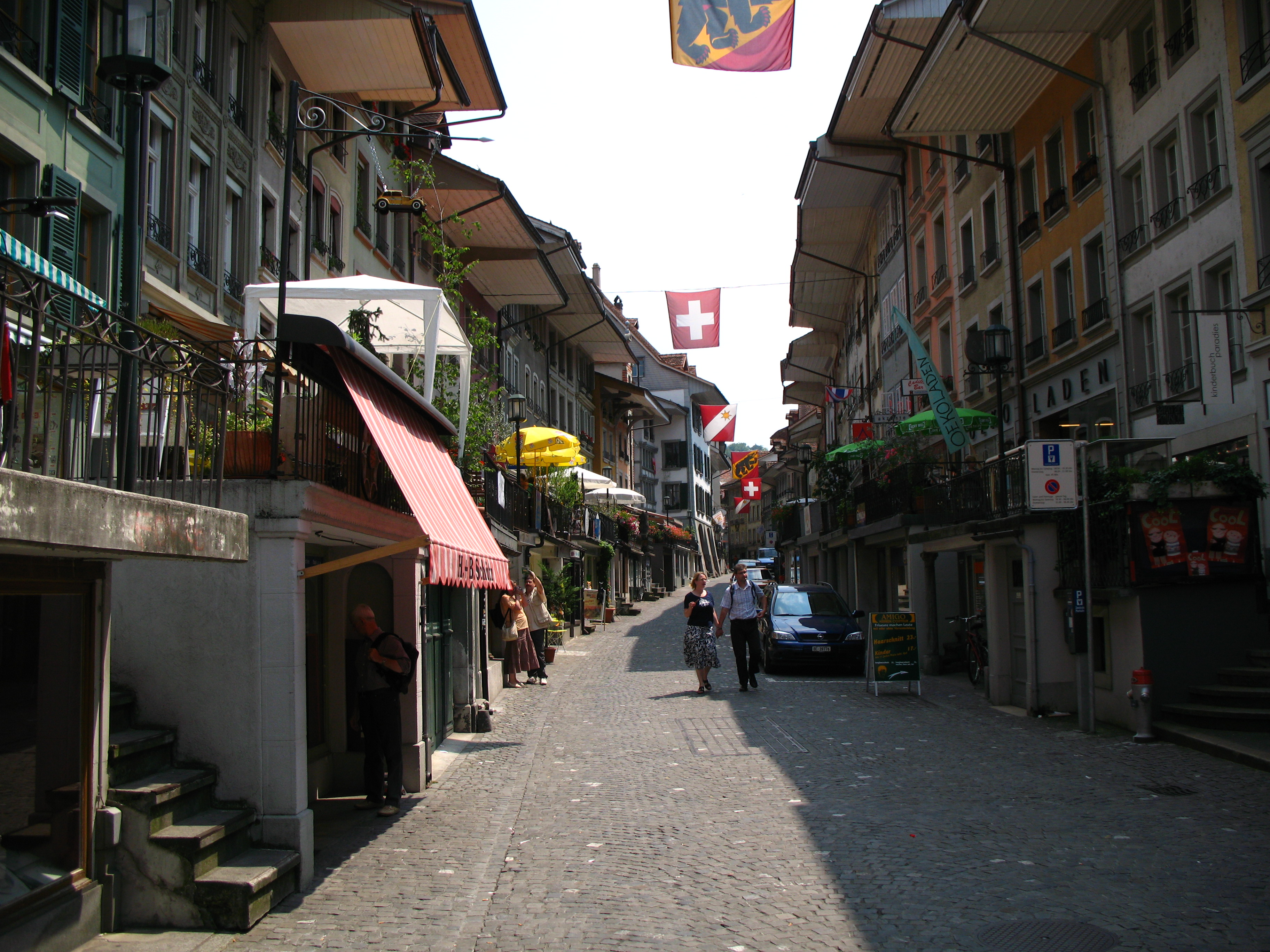 Upper Main Lane, Thun, Switzerland